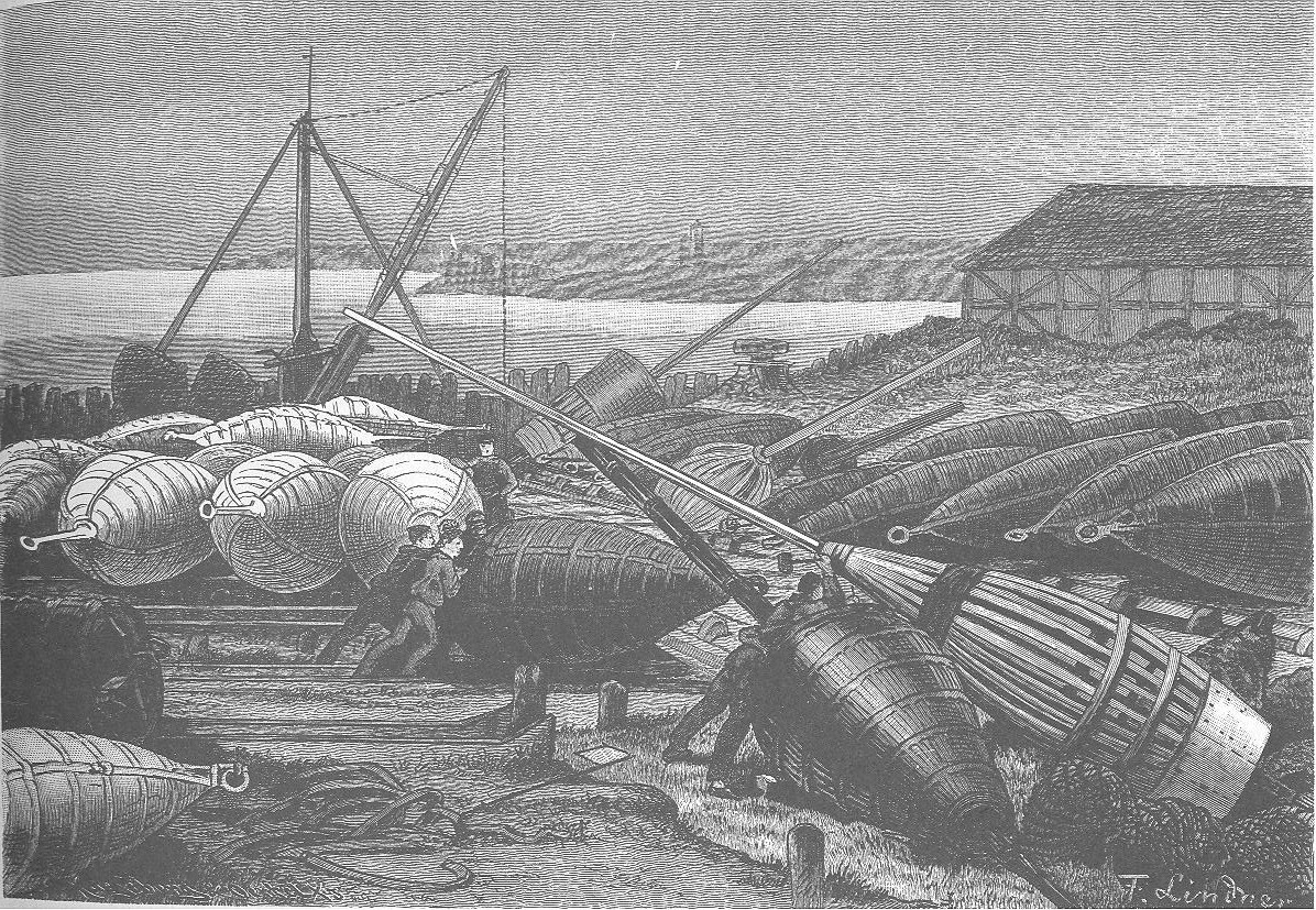 Men pushing a buoy among many others at a buoy depot